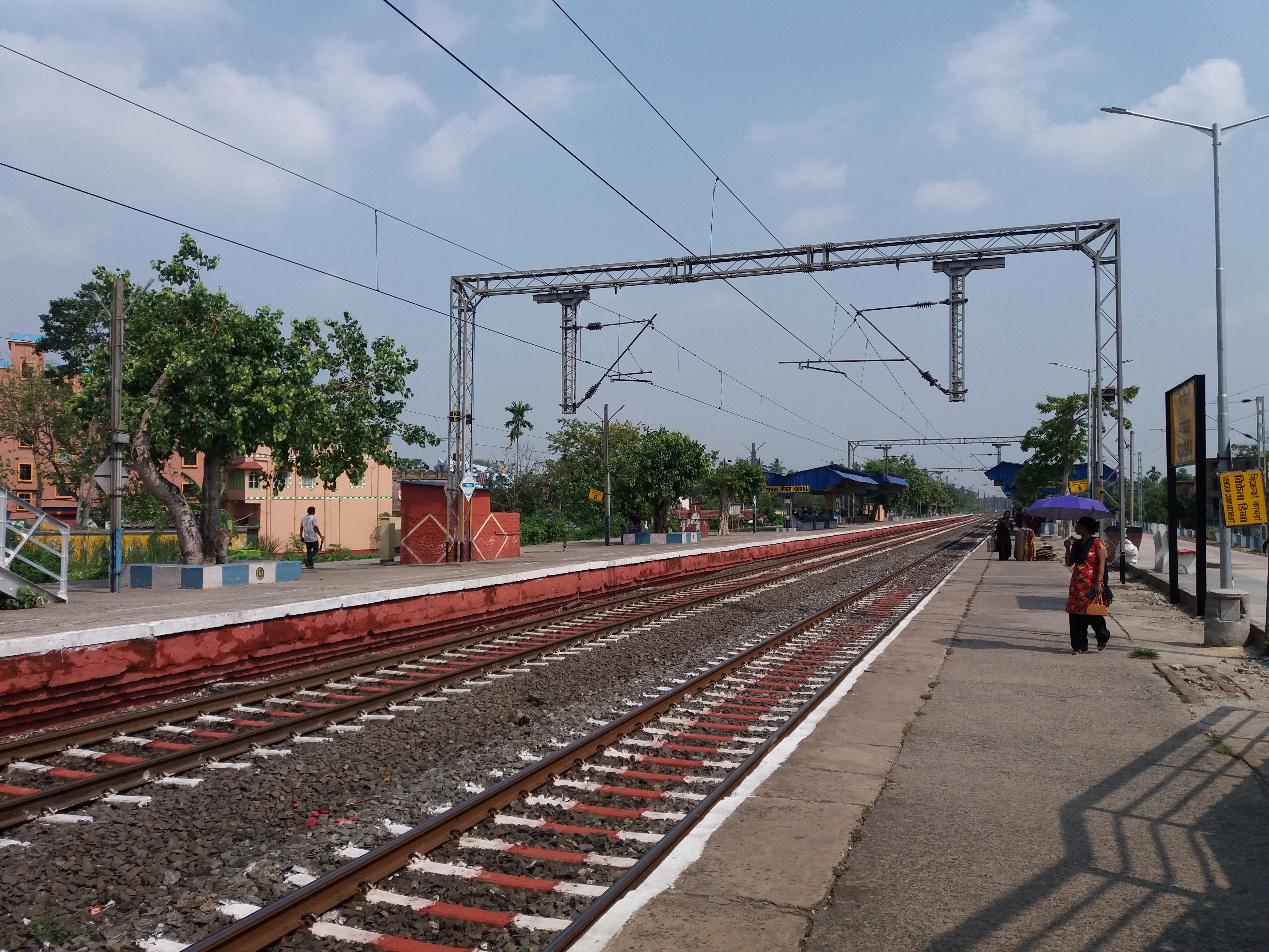 Gobra railway station in Howrah Bardhaman cord line